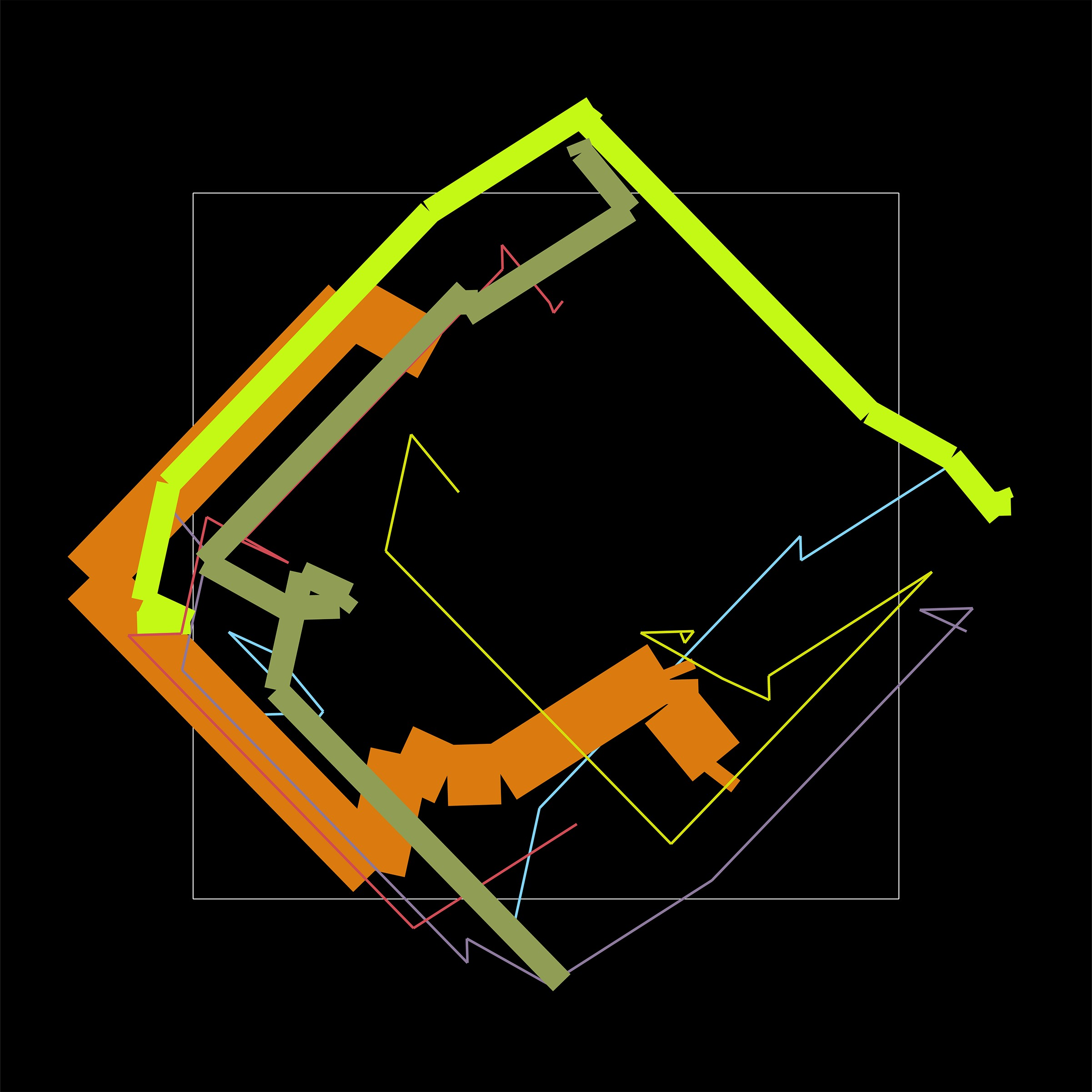 Work of Art "P1273_2" by Manfred Mohr (2007). Pigment ink on canvas, 126 x 126 cm. Owned by Collection Ruppert, Germany